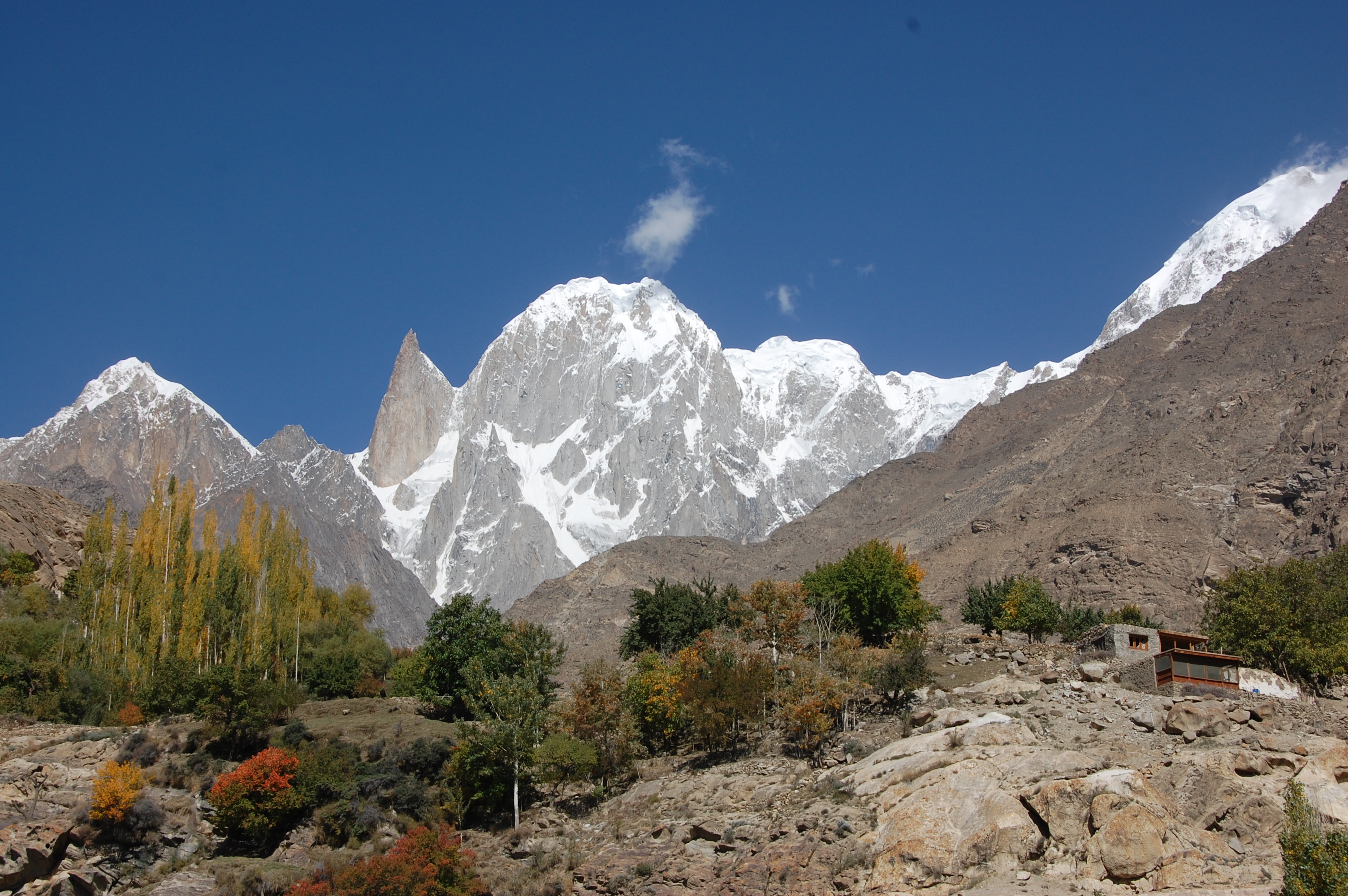 Hunza Peak (centre) with Bublimotin (Ladyfinger Peak) on its left, the southwest ridge of Ultar Sar (resp. Bojohagur Duanasir) on the very right. All of them are part of the Batura Muztagh in the Karakorams in Pakistan